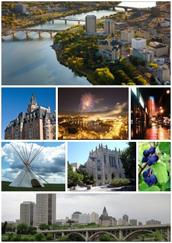 Picture displaying different landmarks and attractions in Saskatoon